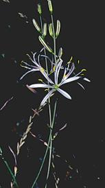 Chlorogalum grandiflorum. BLM photo, no copyright.